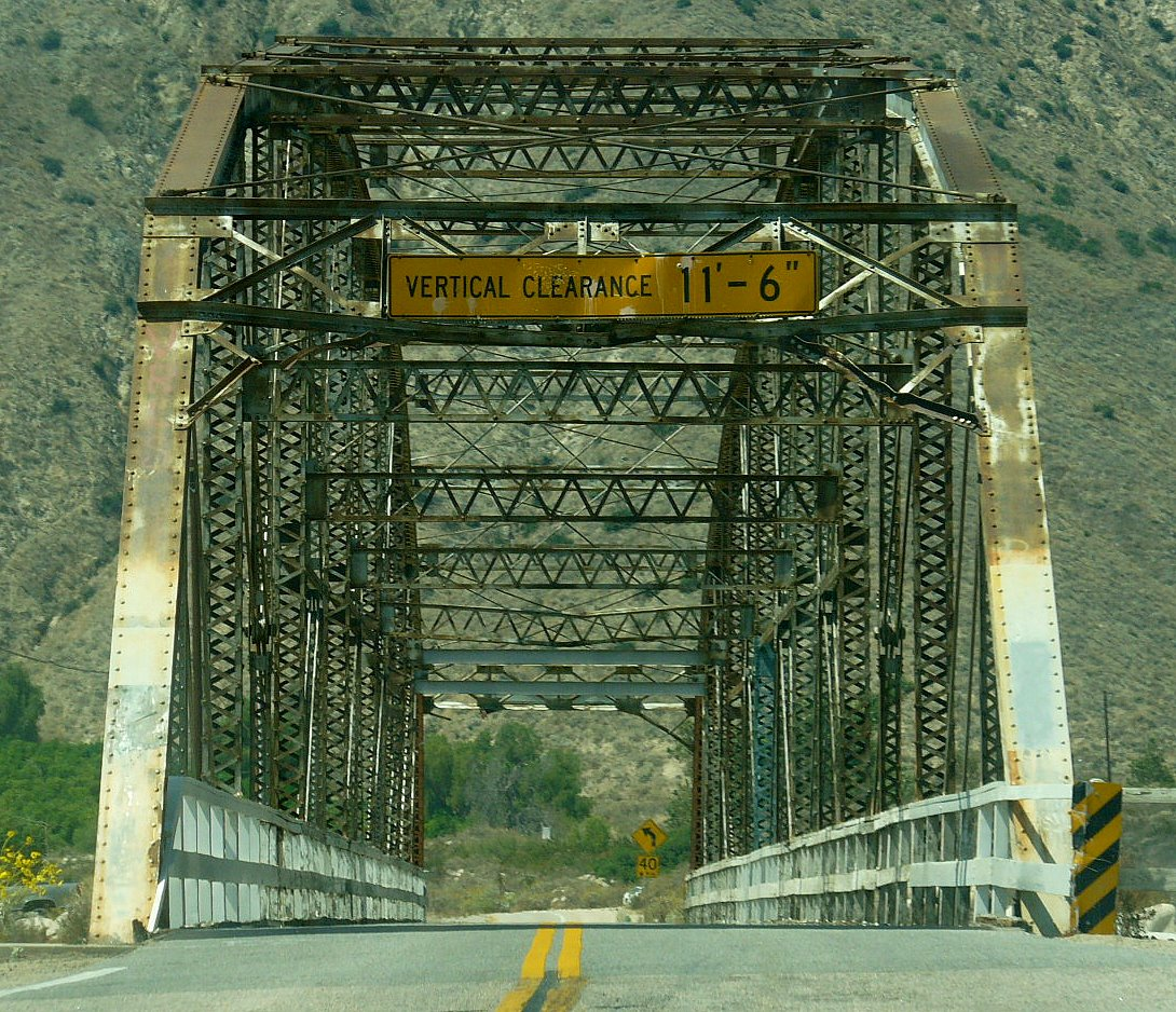 Santa Ana River Bridge